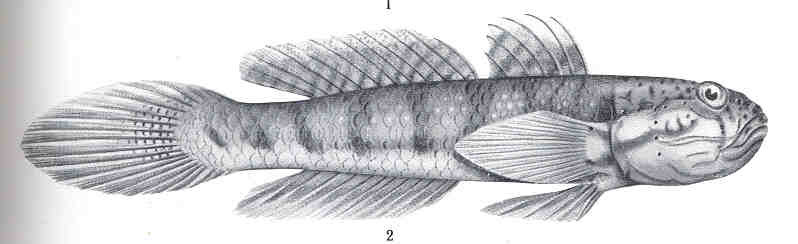 Gobius semifrenatus, Macleay A specimen 113 mm. long, from Botany Bay, New South Wales Subject: Gobiidae, Gobius semifrenatus Tag: Fish